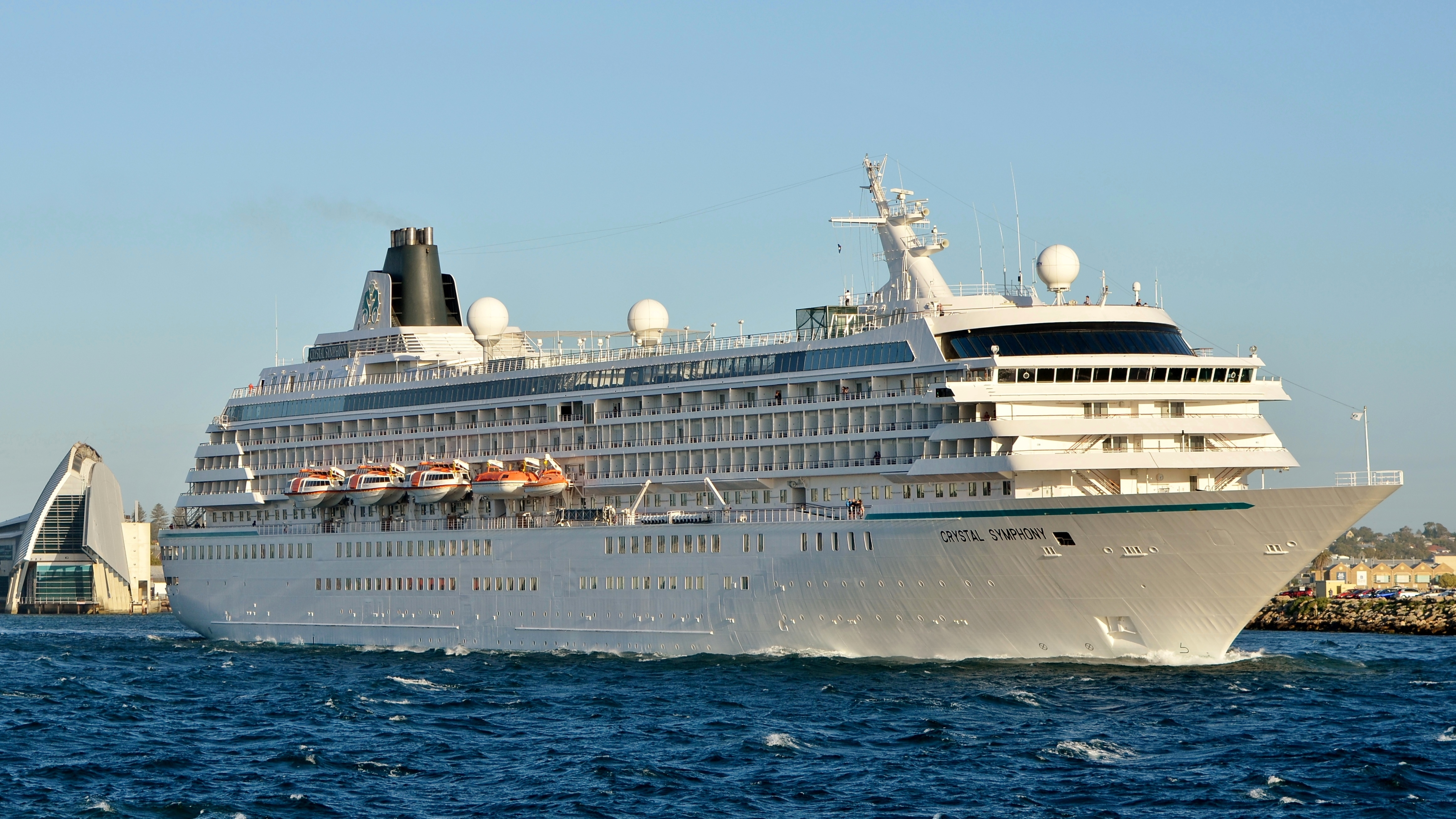 Cruise ship Crystal Symphony departing from the inner harbour of the Port of Fremantle, Western Australia, on a Southern Australia & Tasmania cruise from Fremantle to Sydney